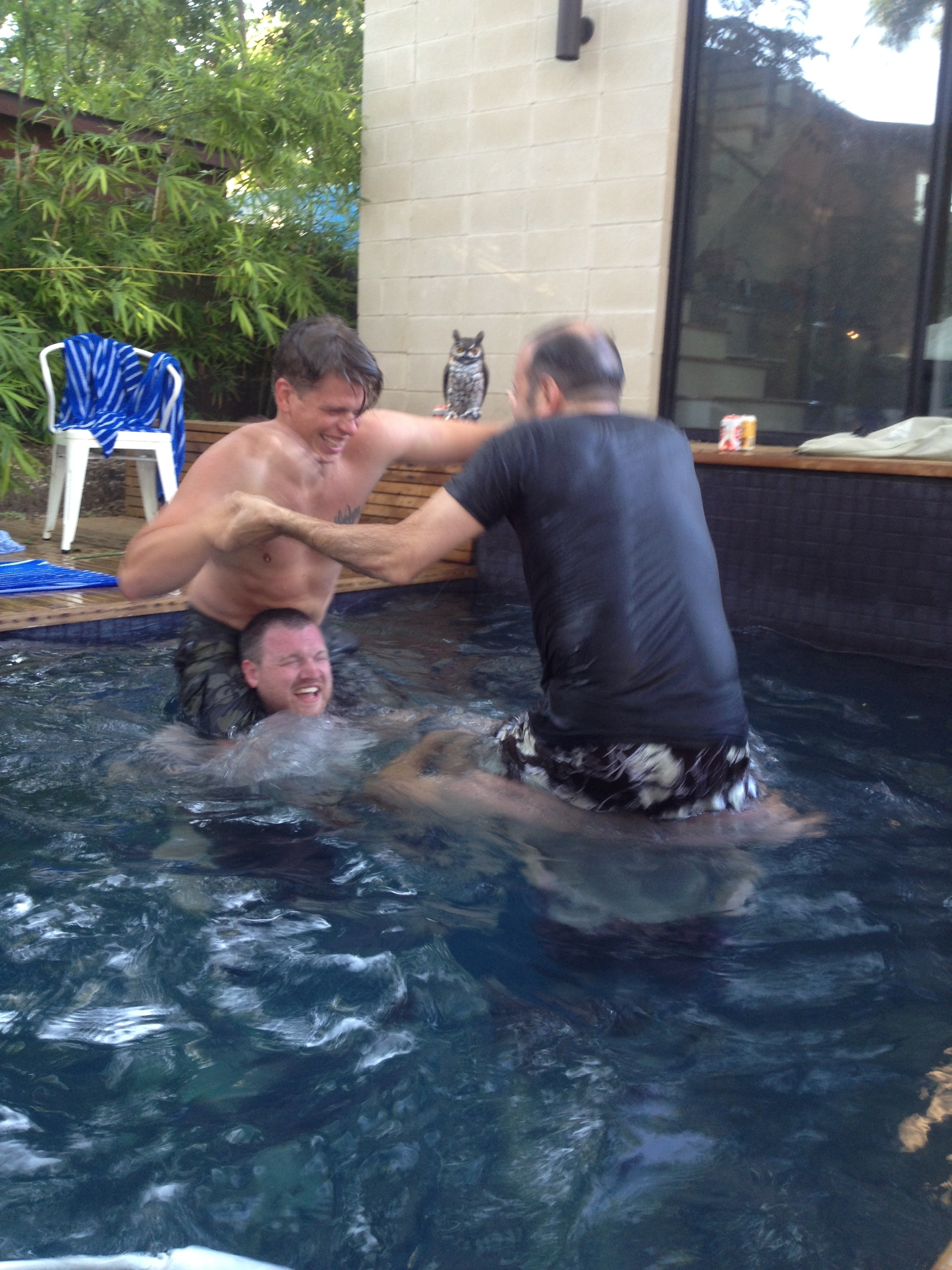 a proper chicken fight